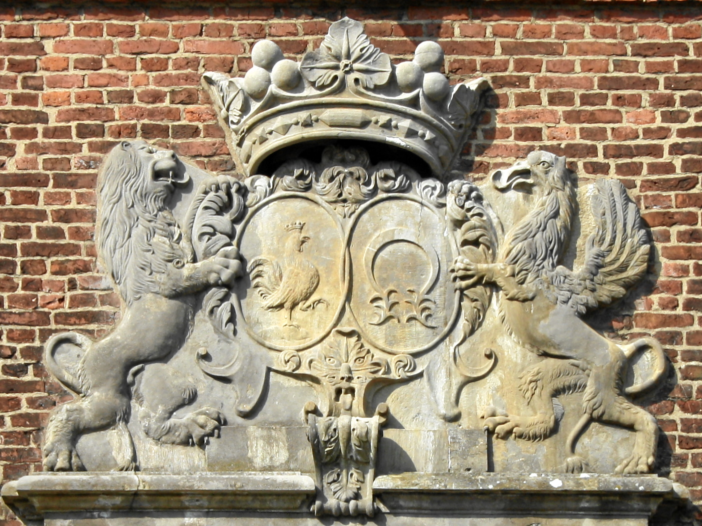 Düsseldorf, Germany. Castle Heltorf, coats of arms at the gate house.